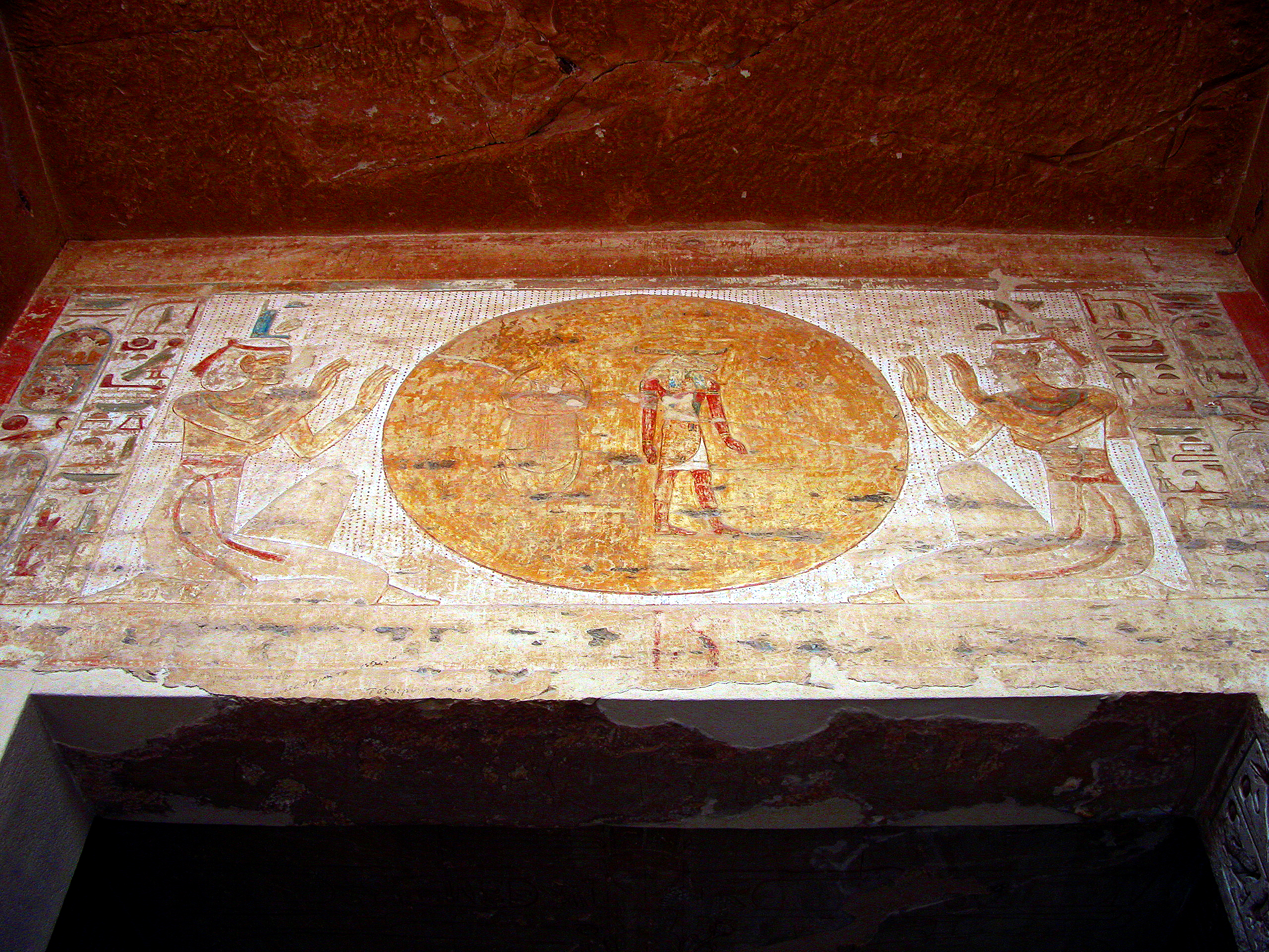 Avuve the entrance to the Tomb of Seti II the son of Merenptah, lived in unsettled times, perhaps reflected in the unfinished state of his Theban tomb. It is located in a separate branch at the south-west end of the Valley. Valley of the Kings, Egypt